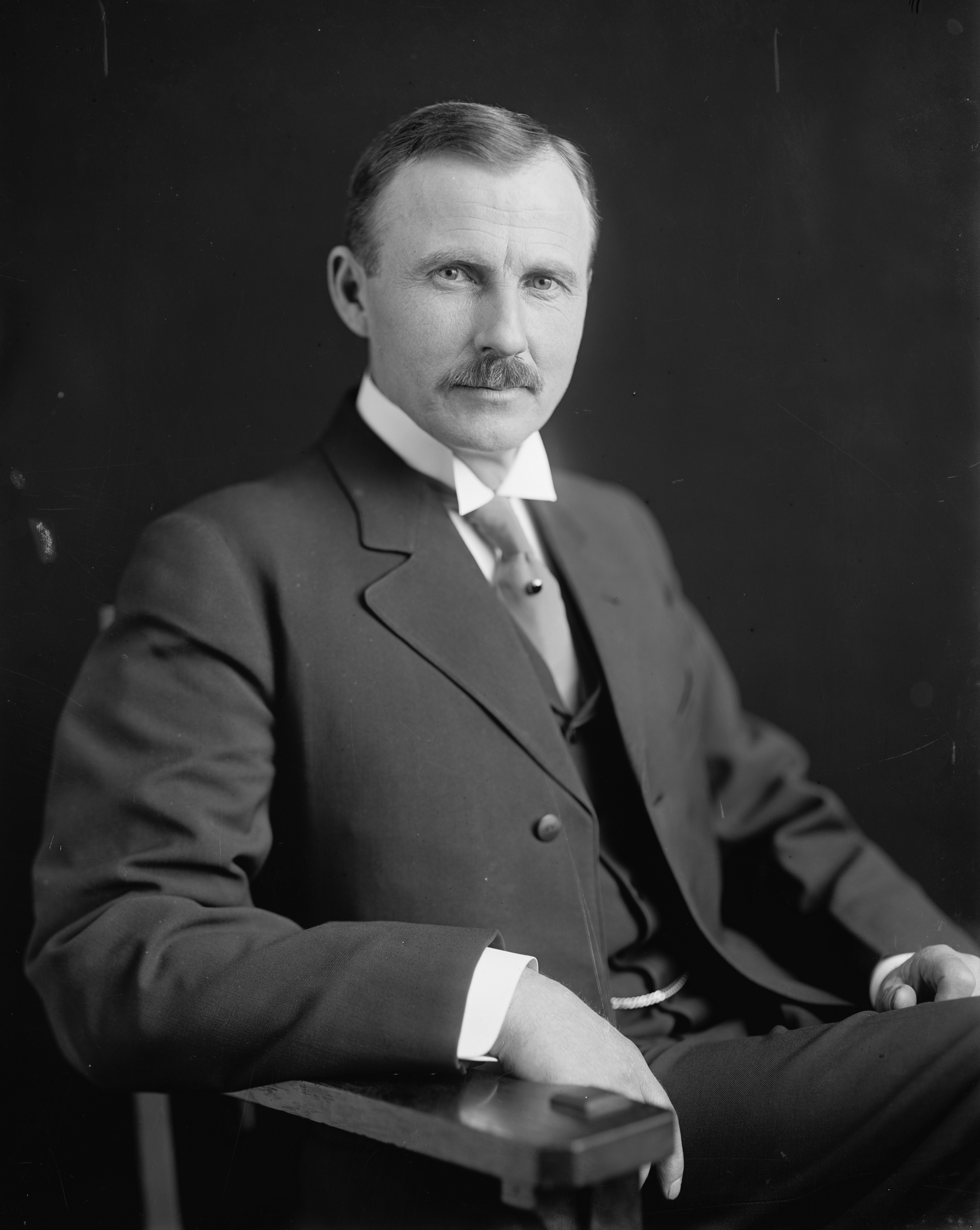 Ralph Henry Cameron, Last Congressional Delegate from Arizona Territory and U.S. Senator from Arizona